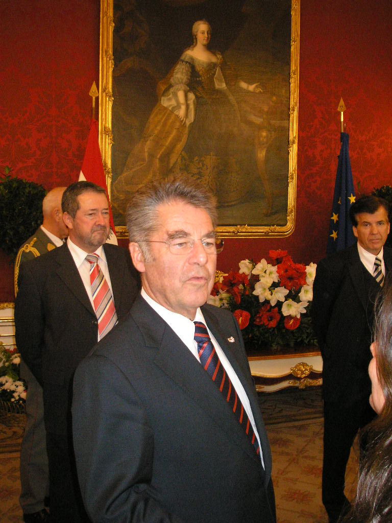 Austrian Federal President Heinz Fischer welcoming citizens at the Leopoldinischer Trakt on National Day (October 26) in Vienna's Hofburg Imperial Palace. Portrait of Empress Maria Theresia of Austria in the background.